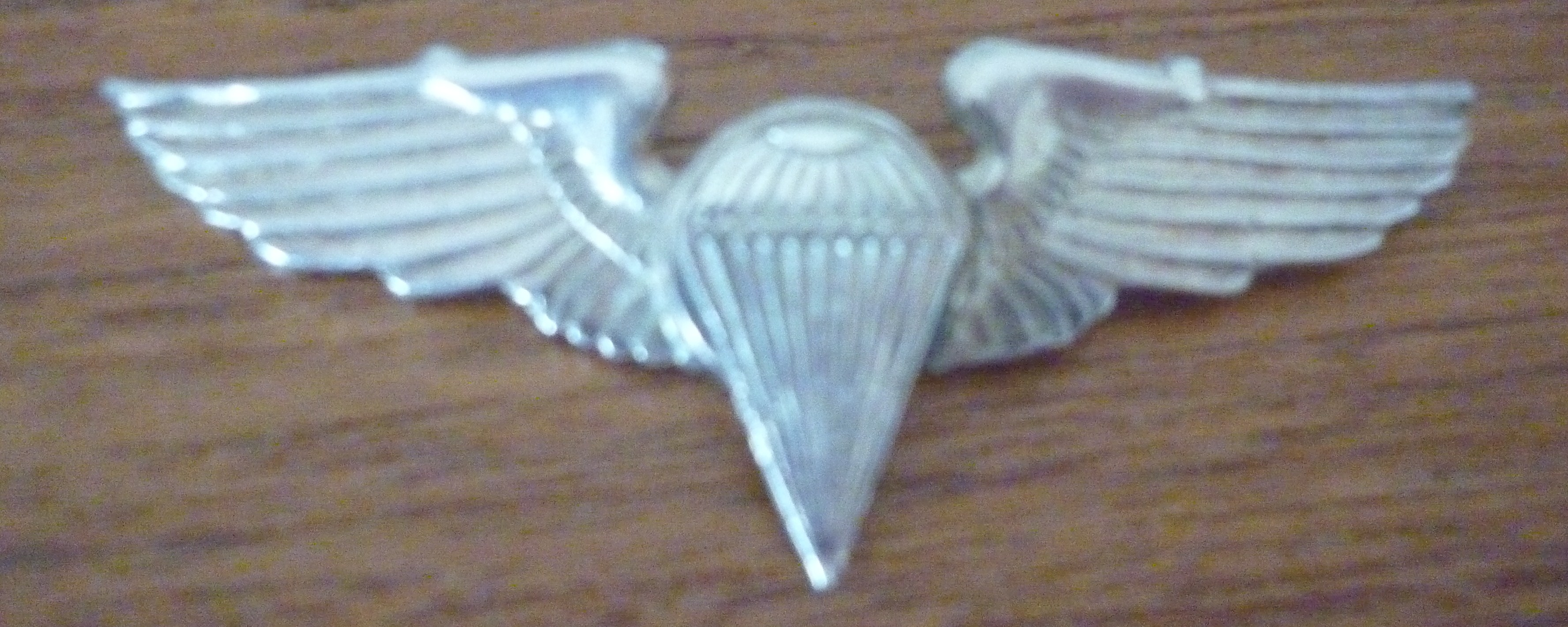 Australian Parachute insigna